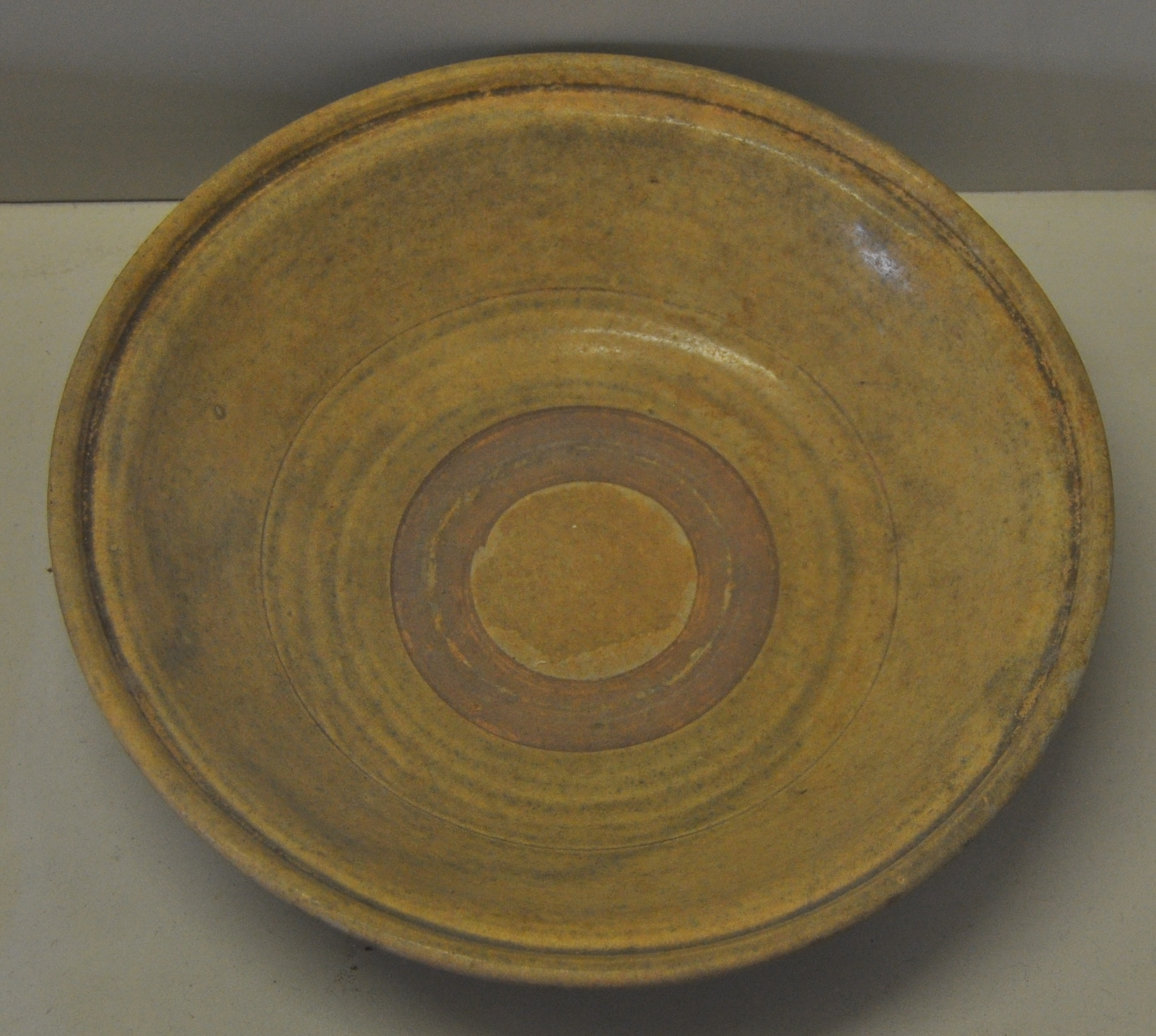 13-14c. Greyish white glazed ceramic in room 6 “Champa Culture (2-17c) in the Museum of Vietnamese History